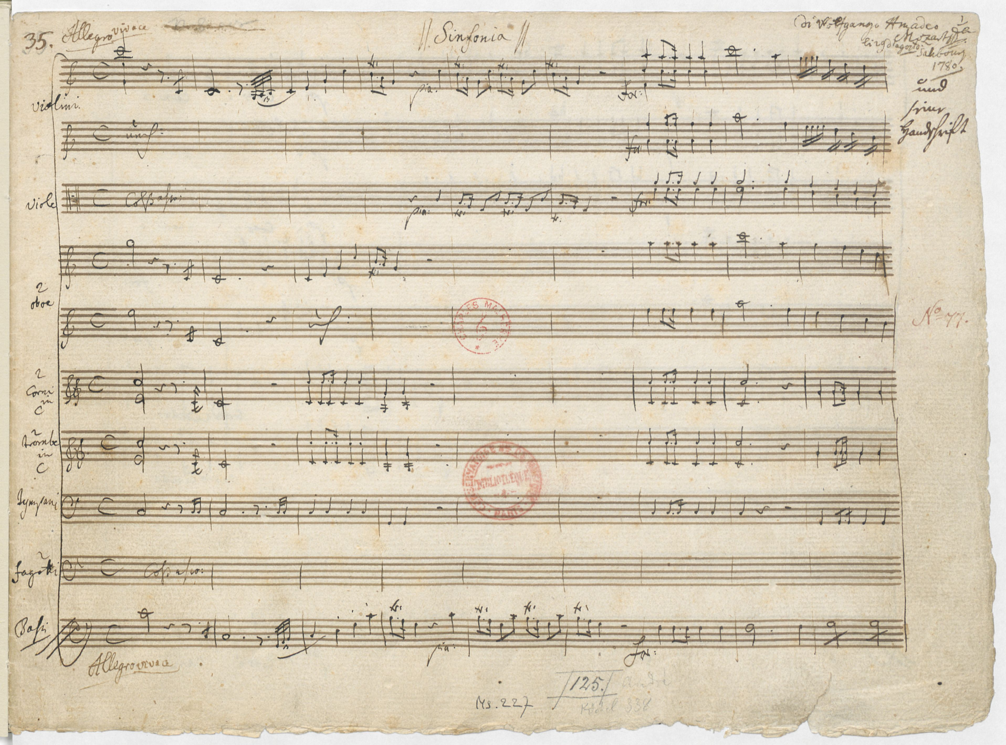 The opening of the autograph manuscript of Mozart's Symphony No.34 in C Major, K.338. Preserved today in two halves, in the Bibliothèque Nationale de France, and in the Biblioteka Jagiellońska, Kraków.